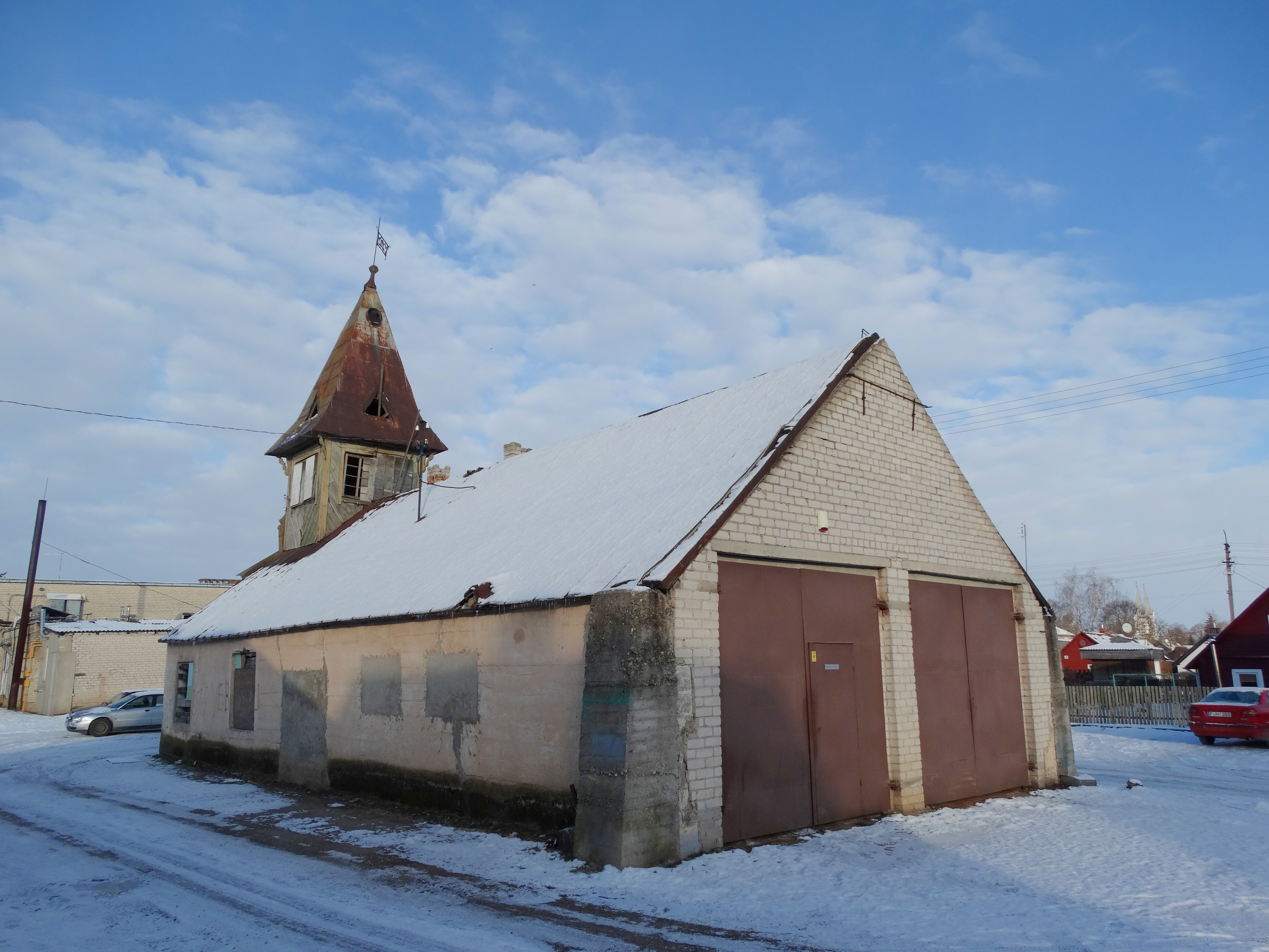 Old fire station, Pakruojis, Lithuania